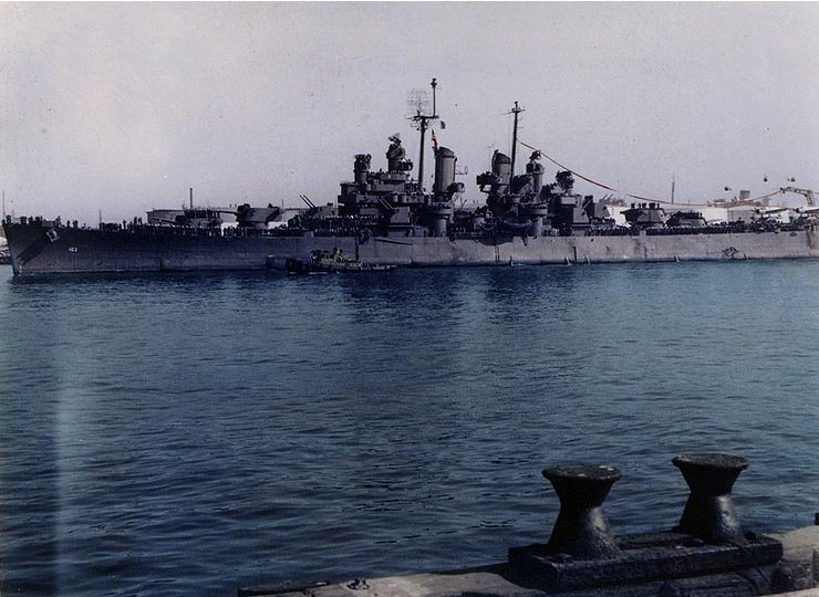 Color-tinted photograph of the U.S. Navy light cruiser USS Wilkes-Barre (CL-103) at San Pedro, California (USA), on 31 January 1946, upon her return from wartime service in the Western Pacific. Note the homeward bound pennant held up by balloons.